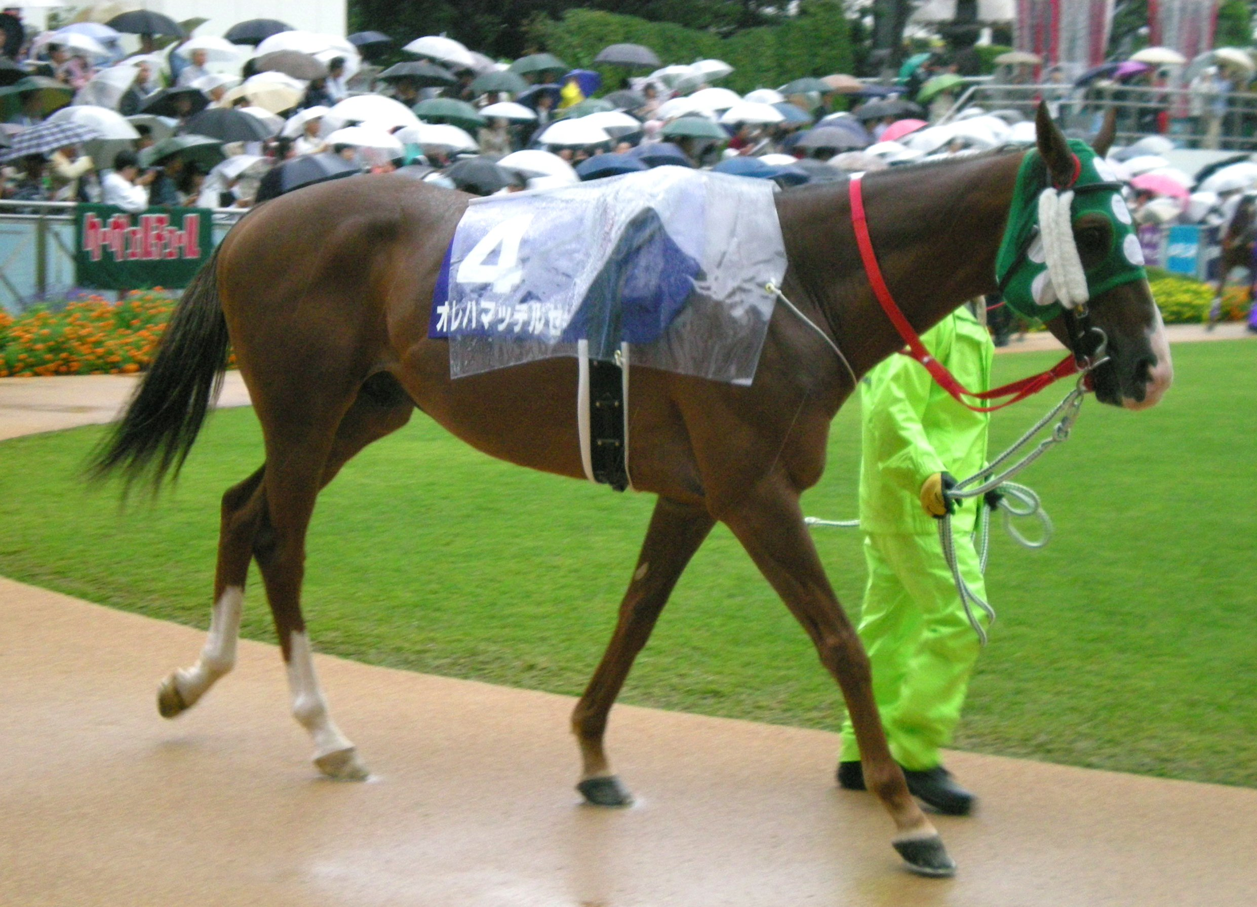 Orewa Matteruze